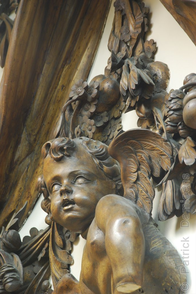 Peter van Dievoet (1661-1729)